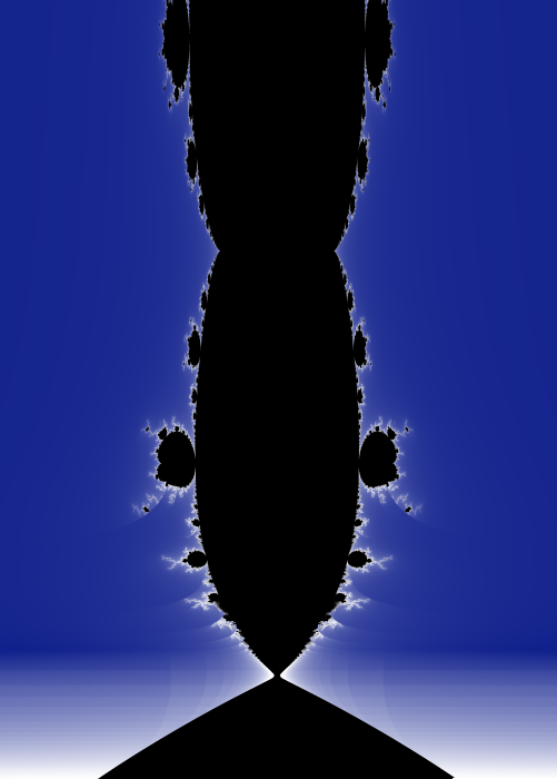 Multibrot rendered with imaginary value on horizontal axis and exponent on vertical axis, real value fixed at zero